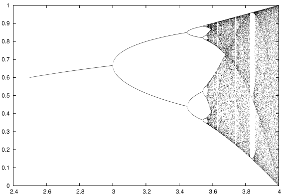 Burification diagram of a logistic map Released by the author (User:Ap) into the public domain. Generation scripts Here are some GNU Octave scripts to experiment with the generation of bifurcation diagrams for the logistic map. r_min = 2.5; r_max = 4; # the range of parameter values we study n = 1000; # the number of parameter values we consider in this range t_max = 1000; # how many iterations to simulate per parameter value p_max = 100; # the last p_max iterations are plotted x0 = 0.1; # we use the same initial value x0 for all parameters. r = linspace(r_min, r_max, n); pop = zeros(p_max, n); for k = 1:n x = population(r(k), x0, t_max); pop(:, k) = x(t_max-p_max+1:t_max); end gset nokey; plot(r, pop, 'b.'); function x = population(r, x0, n) # simulates n iterations of the logistic map with parameter # r and initial value x0. The results are returned in the # array x. x = zeros(n, 1); x(1) = x0; for k = 1:n-1 x(k + 1) = r * x(k) * (1 - x(k)); end endfunction